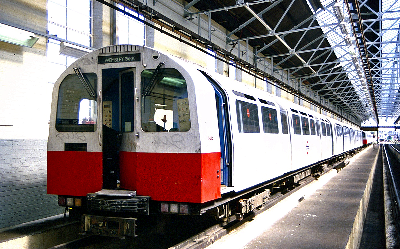 London Underground 1983 stock at Neasden Depot